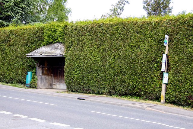 Bus shelter in a hedge in Wantage Road, Harwell, Oxfordshire (formerly Berkshire)